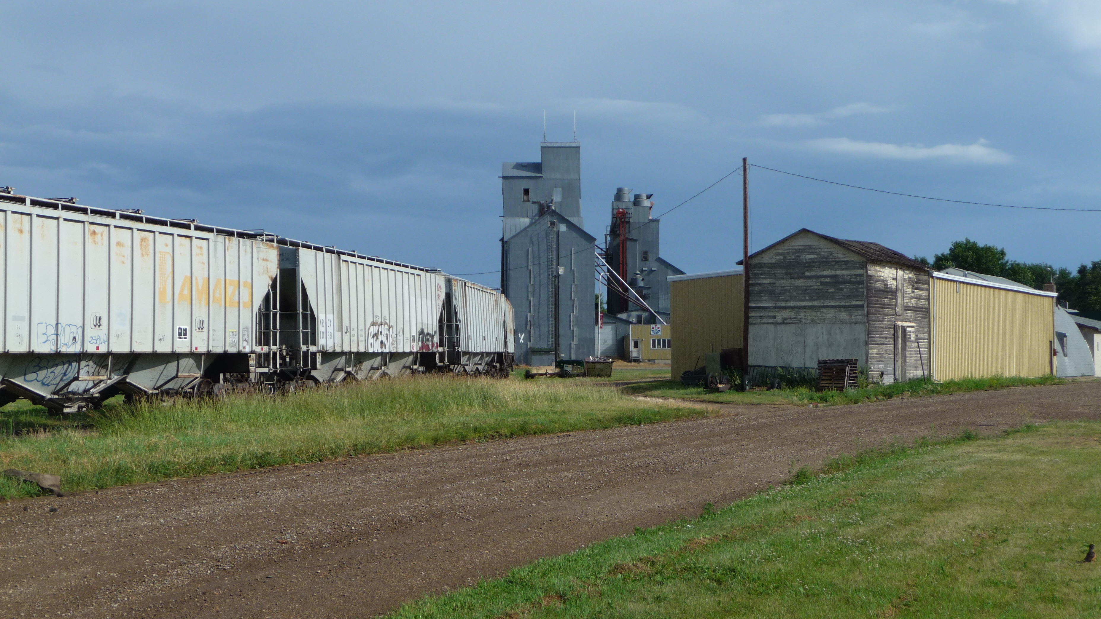 Grain elevators in Carrington, North Dakota, USA